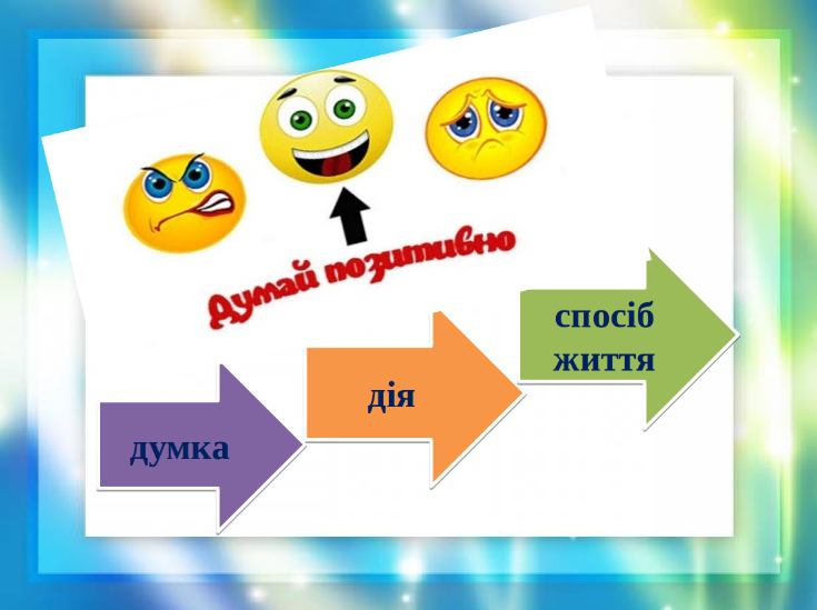 Opinion - action - lifeway